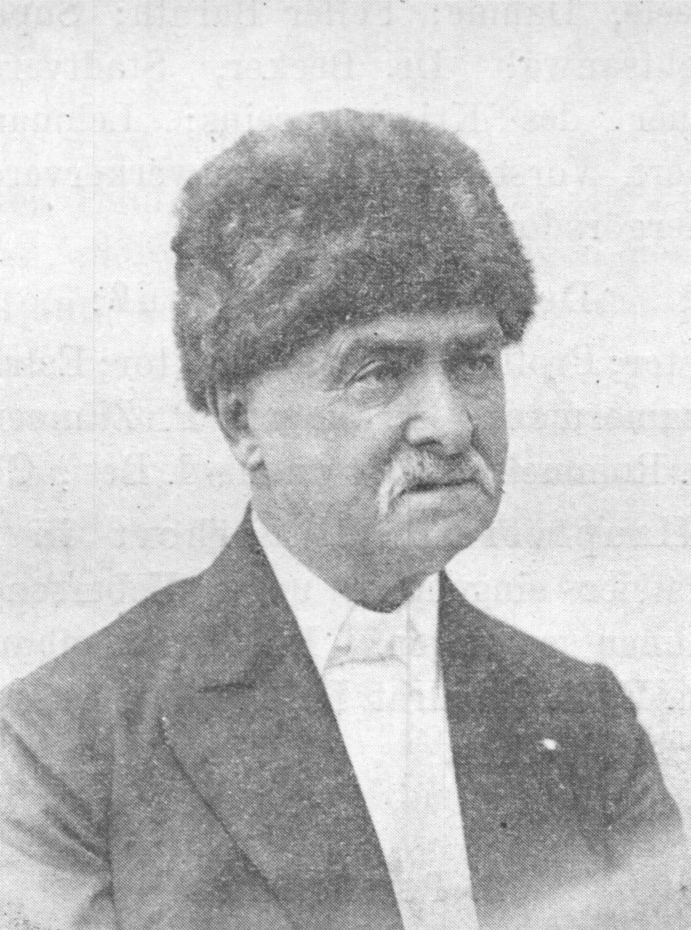 Carl Bolle (1821-1909); on the back of this photograph was written "Der Überlebende eines verflossenen Jahrhunderts, 1902 Carl Bolle" ("The survivor of a bygone century")